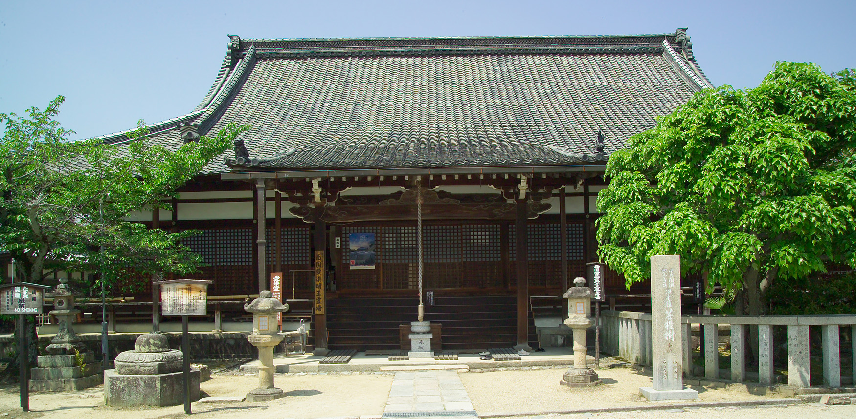 This photograph shows the Aizen-dō at Saidai-ji, a Buddhist temple in Nara, Japan.